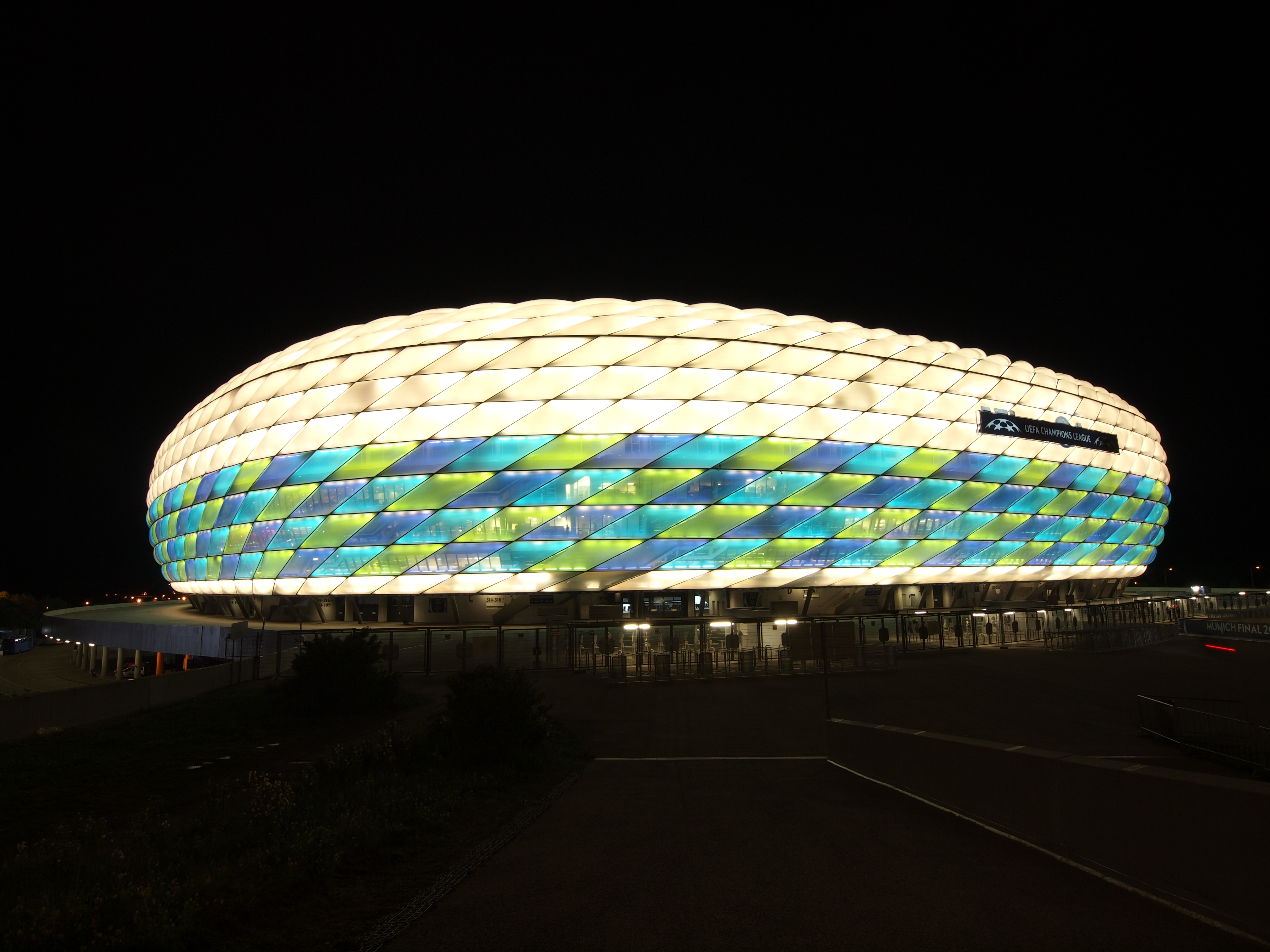 The Allianz Arena in Munich, Germany, in the colours and livery of the 2012 UEFA Champions League Final, held there on 19 May 2012.